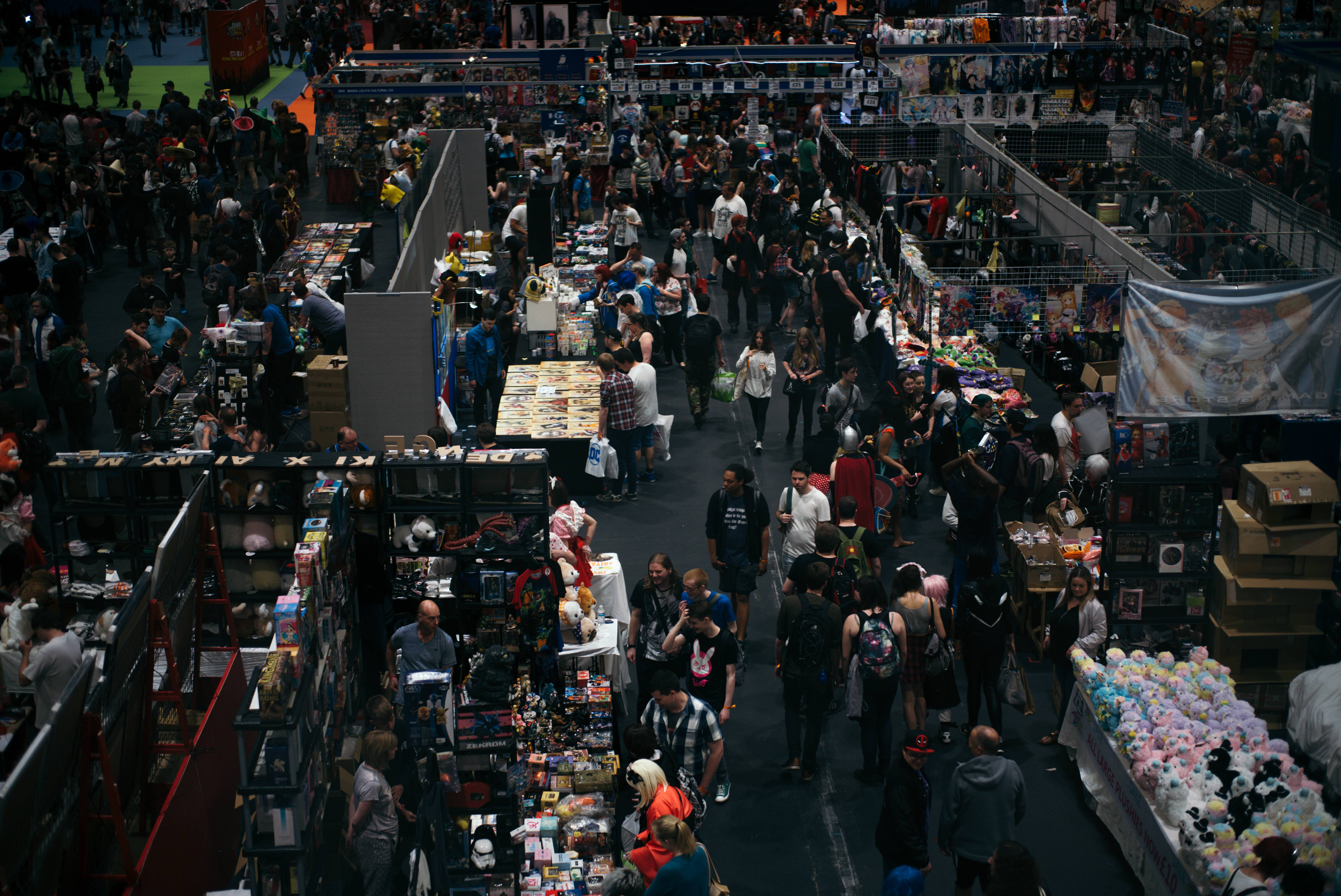 Birds eye view of guests at MCM London Comic Con, at the Excel Centre London, May 2017